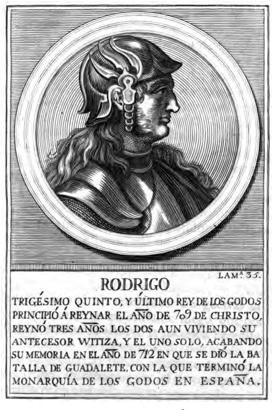 A poster of RODRIGO, Visigoth king, n° 35 in the chronological order of the book digitalized by Google since the bookshop in the University of Oxford.